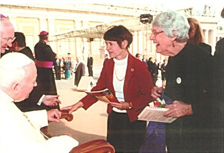 Justine Merritt and Michele Peppers present Ribbon to Pope John Paul II, in honor of the Decade for a Culture of Peace and Non Violence for the Children of the World (2001-2010), 17, October 2001.